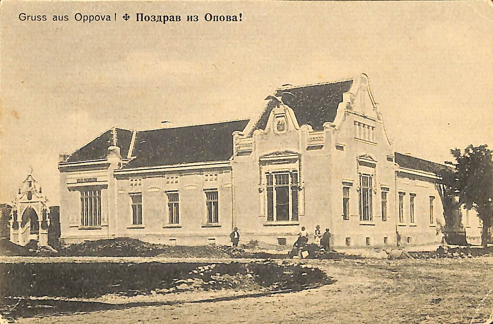 Opovo on postcard